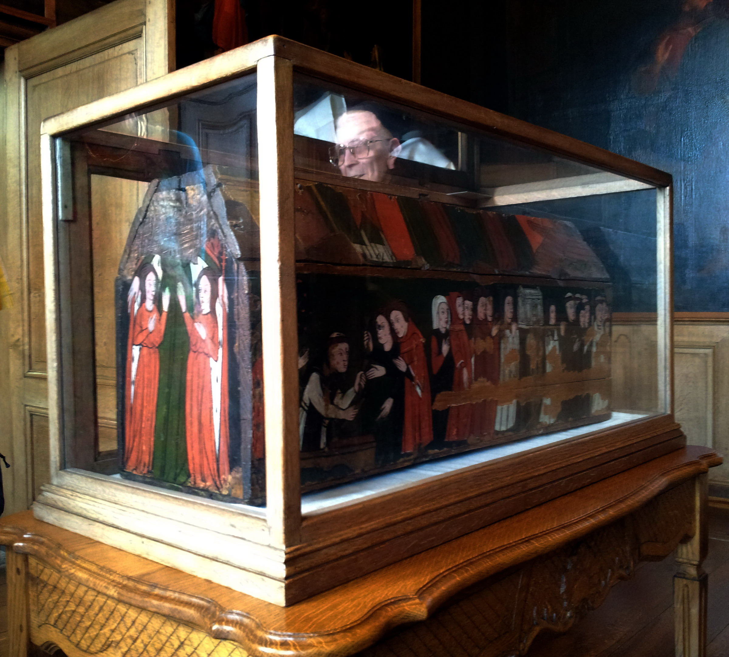 Borgloon-Kerniel, Belgium. View of the 13th-century painted reliquary shrine of Saint Odile in the sacristy of the Abbey Mariënlof (also: Abbey of Colen). In the background some of the wall canvasses depicting the life of Christ, painted in 1777 by Liège artist Martin Aubée.